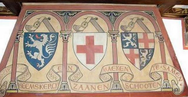 Fireplace with the arms race in Schoten House for Zaanen, Haarlem